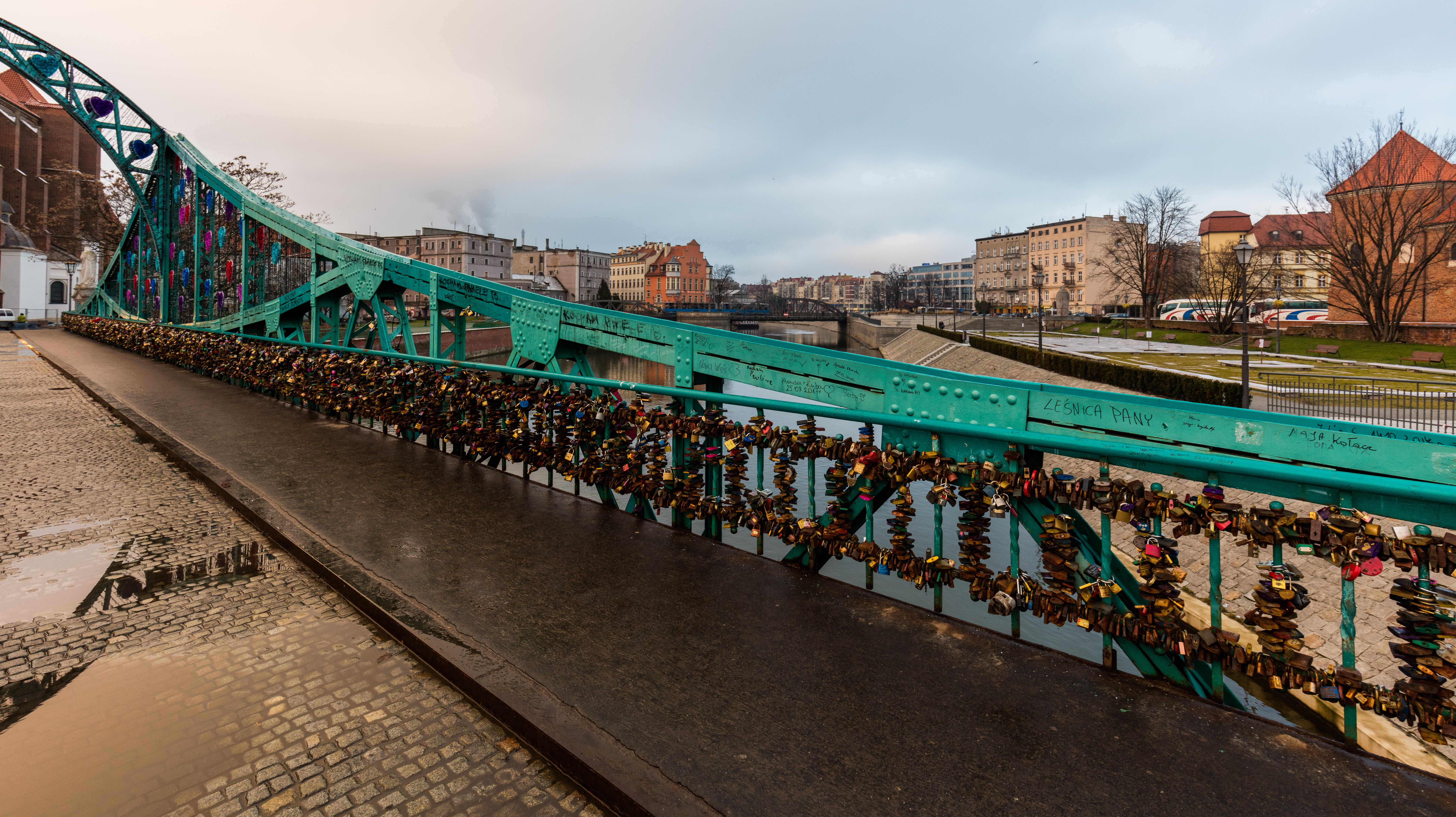 Tumski Bridge, Wrocław, Poland